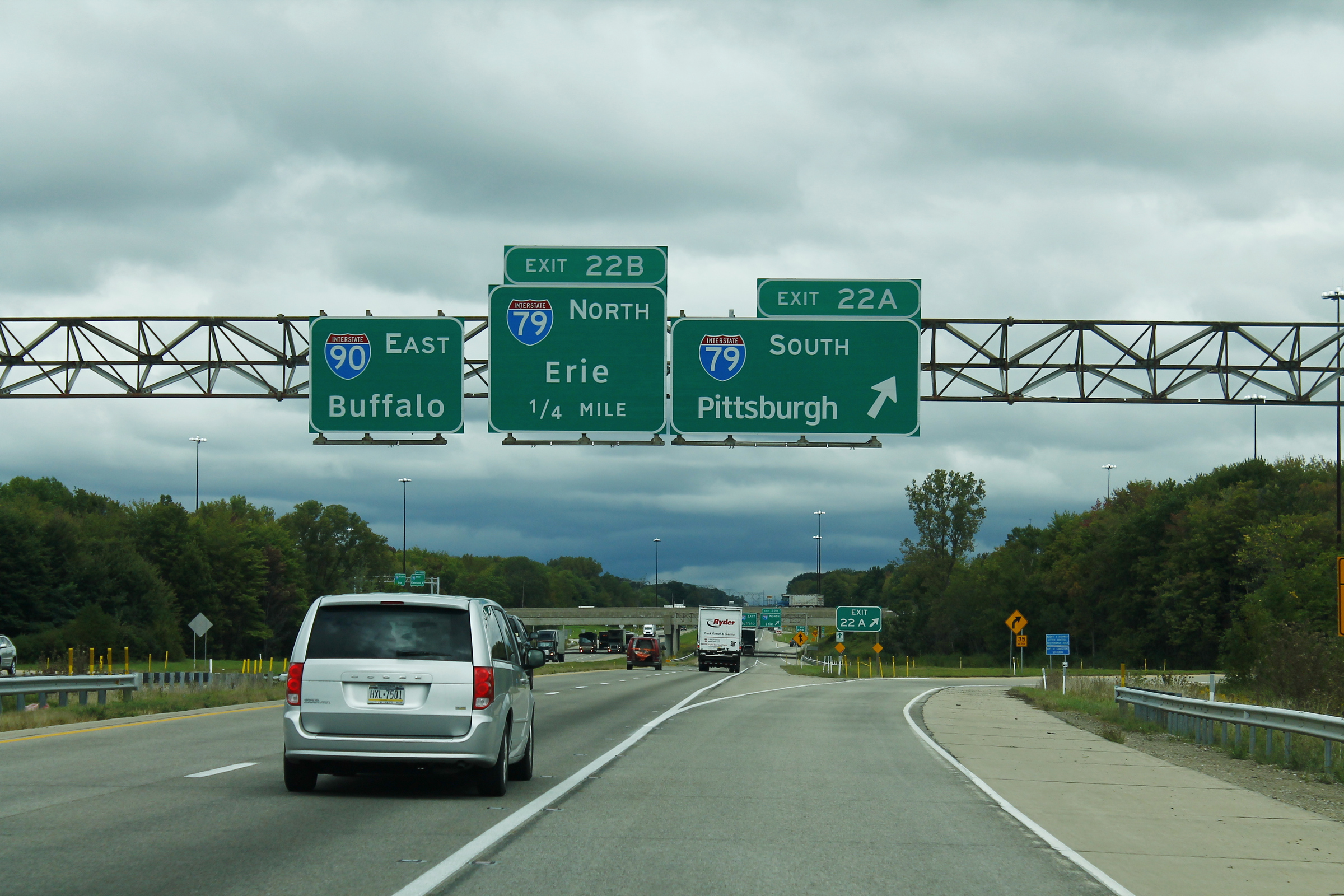 Int90eRoadPA-Exit22AB-Int79ns